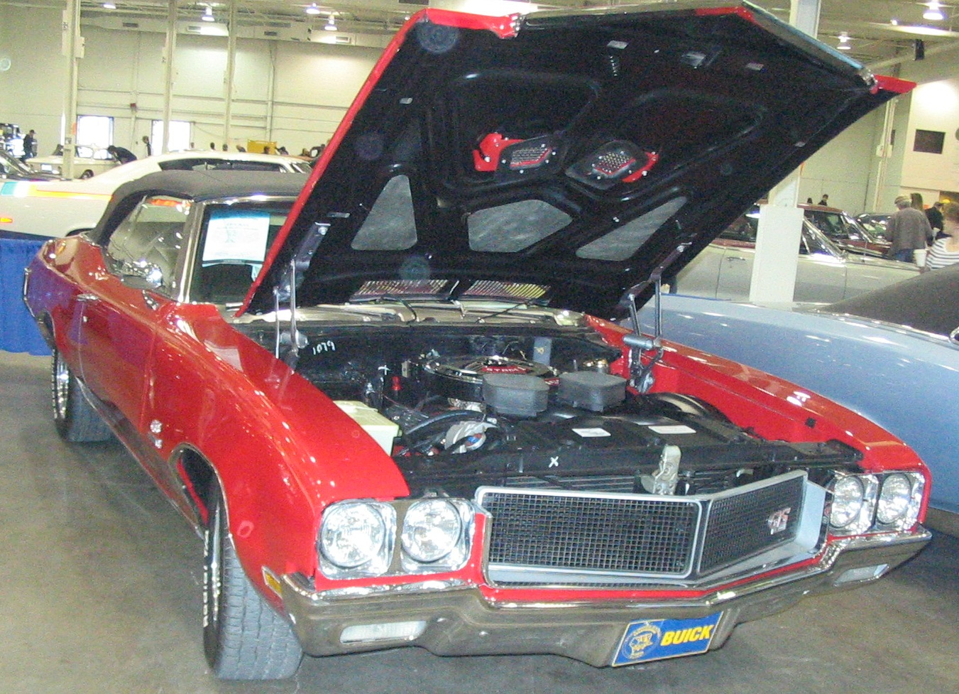 Buick Skylark GS photographed in Mississauga, Ontario, Canada at the Toronto Classic Car Auction of spring 2012.